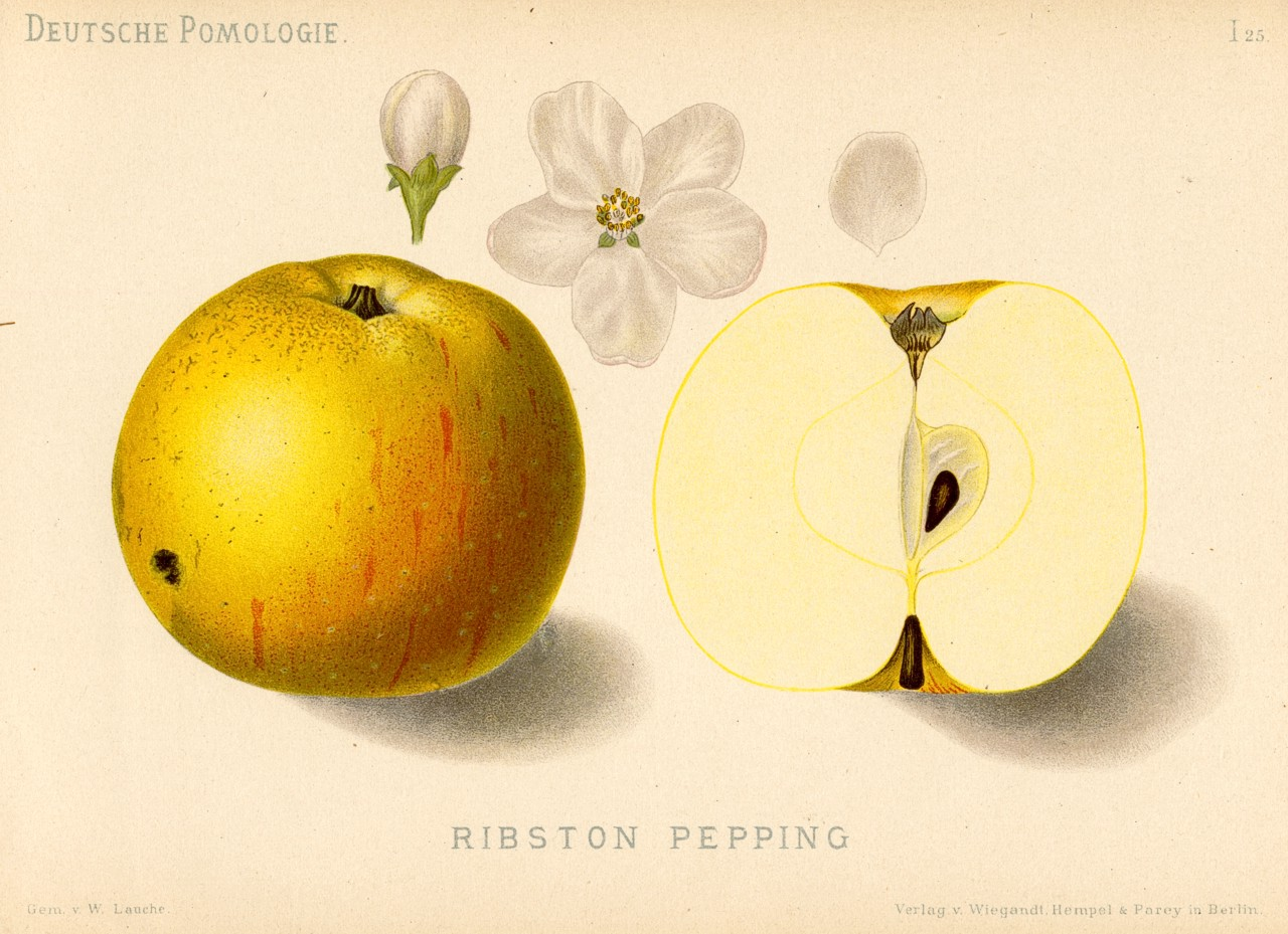 Illustration 25 from Deutsche Pomologie - Aepfel Apple cultivar shown: Ribston Pepping